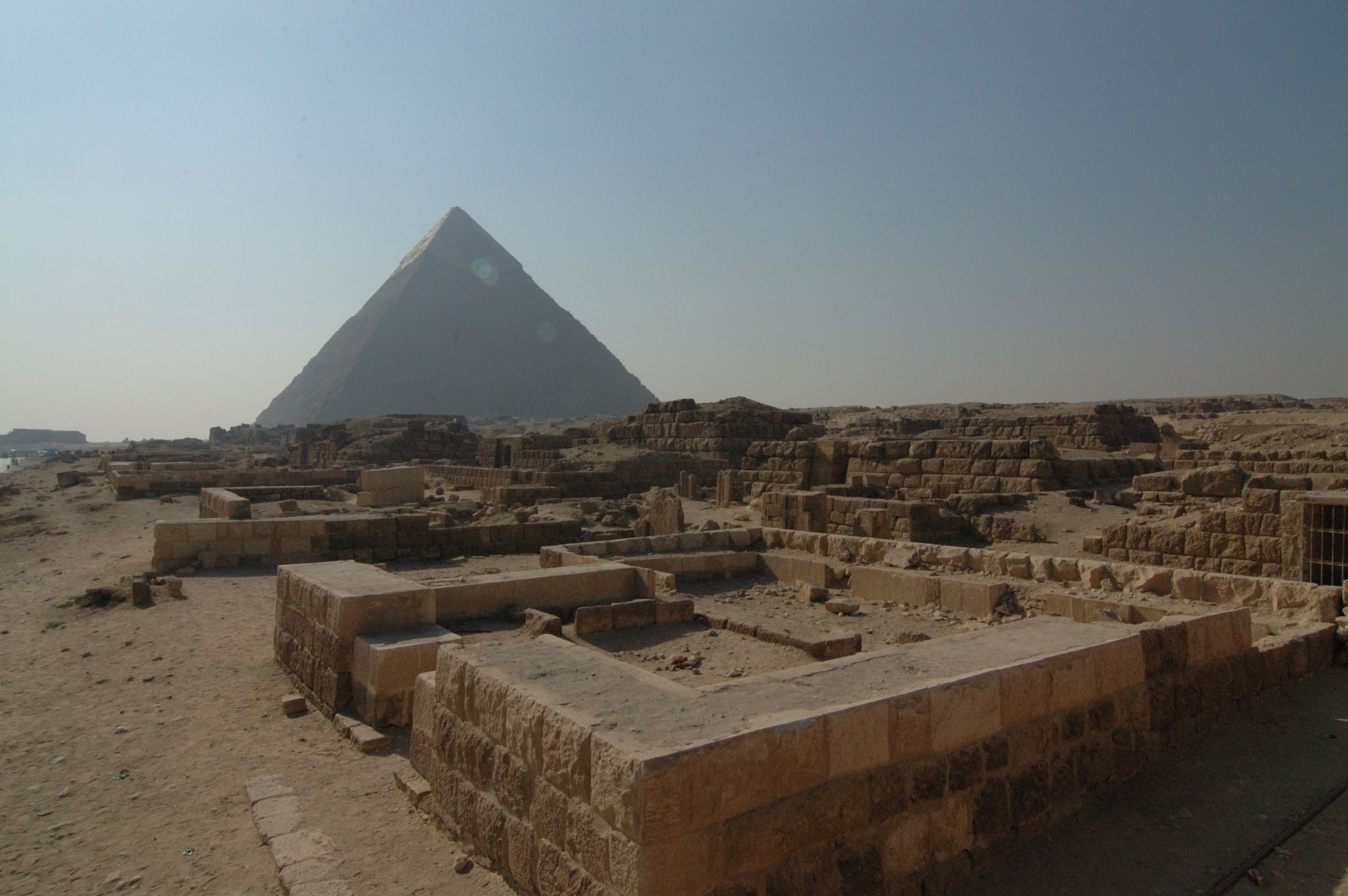 Mastaba and Pyramid of Khafre.